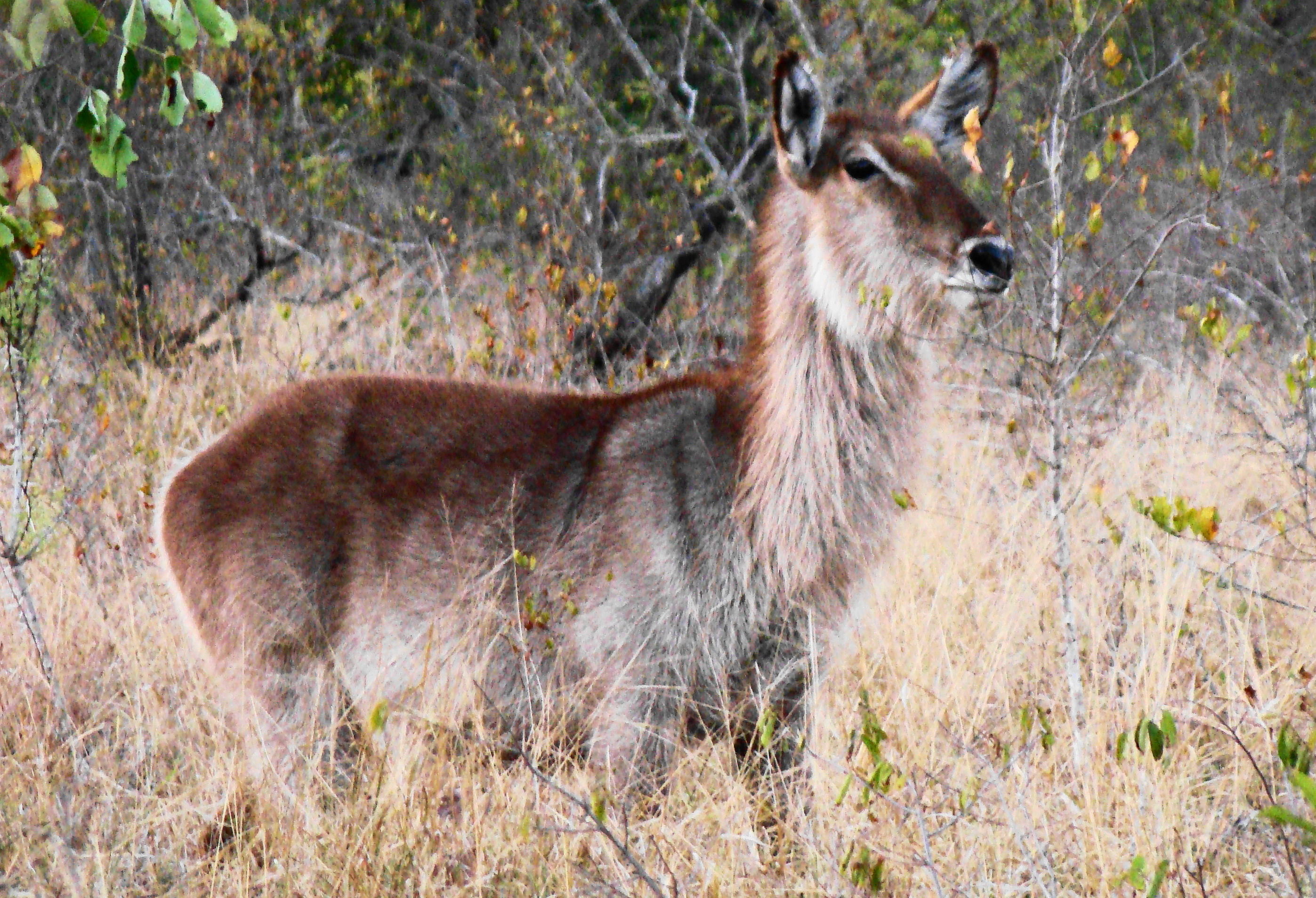 A beautiful Waterbuck (Kobus ellipsiprymnus). This picture has taken in Sabi Sand Private Game Reserve, South Africa.